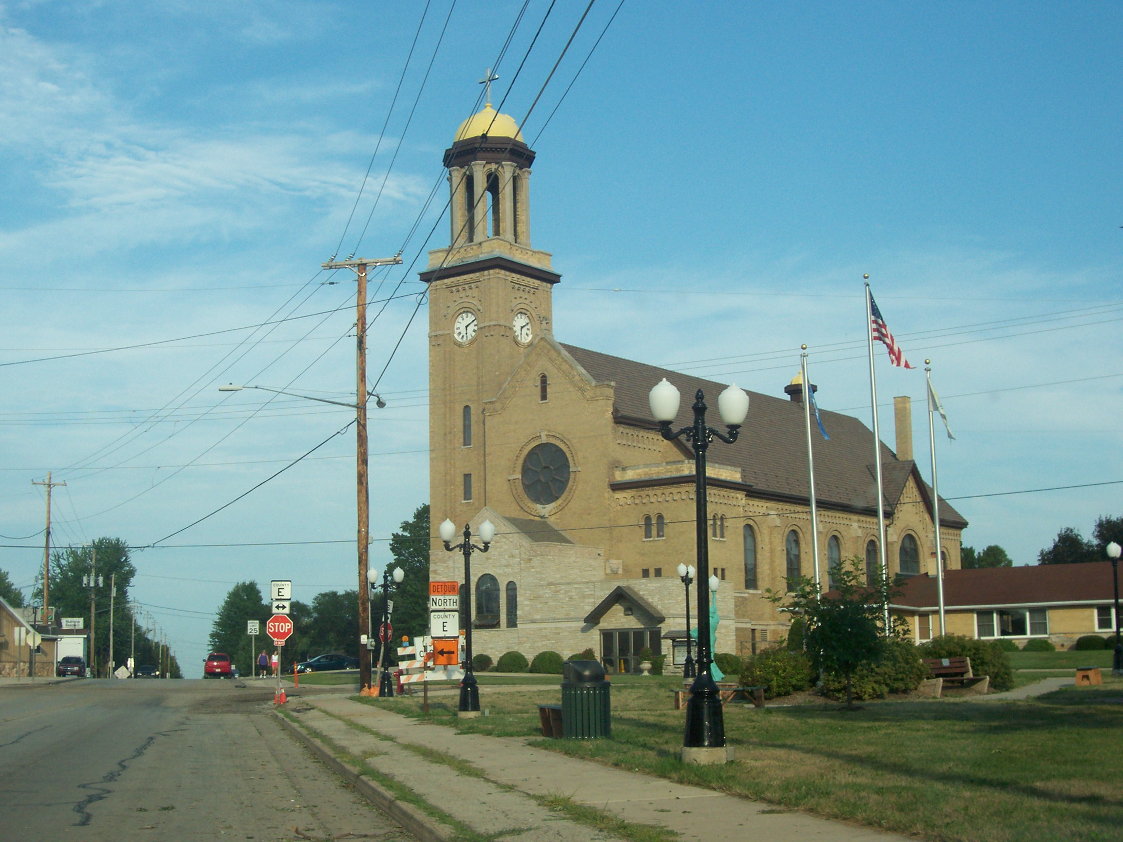 St Nicholas Catholic Church in Freedom, Wisconsin, USA, taken July 30 en:2006 by myself.